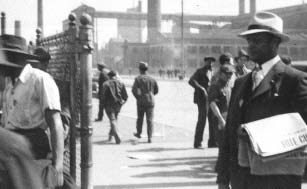 Leon Bates (UAW leader) handing out UAW—United Auto Workers literature during the 1941 organizing drive at the Ford Motor Company - River Rouge plant - gate #4 on Miller Road.